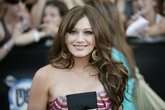 Hilary Duff at the 2007 MuchMusic Video Awards red carpet.